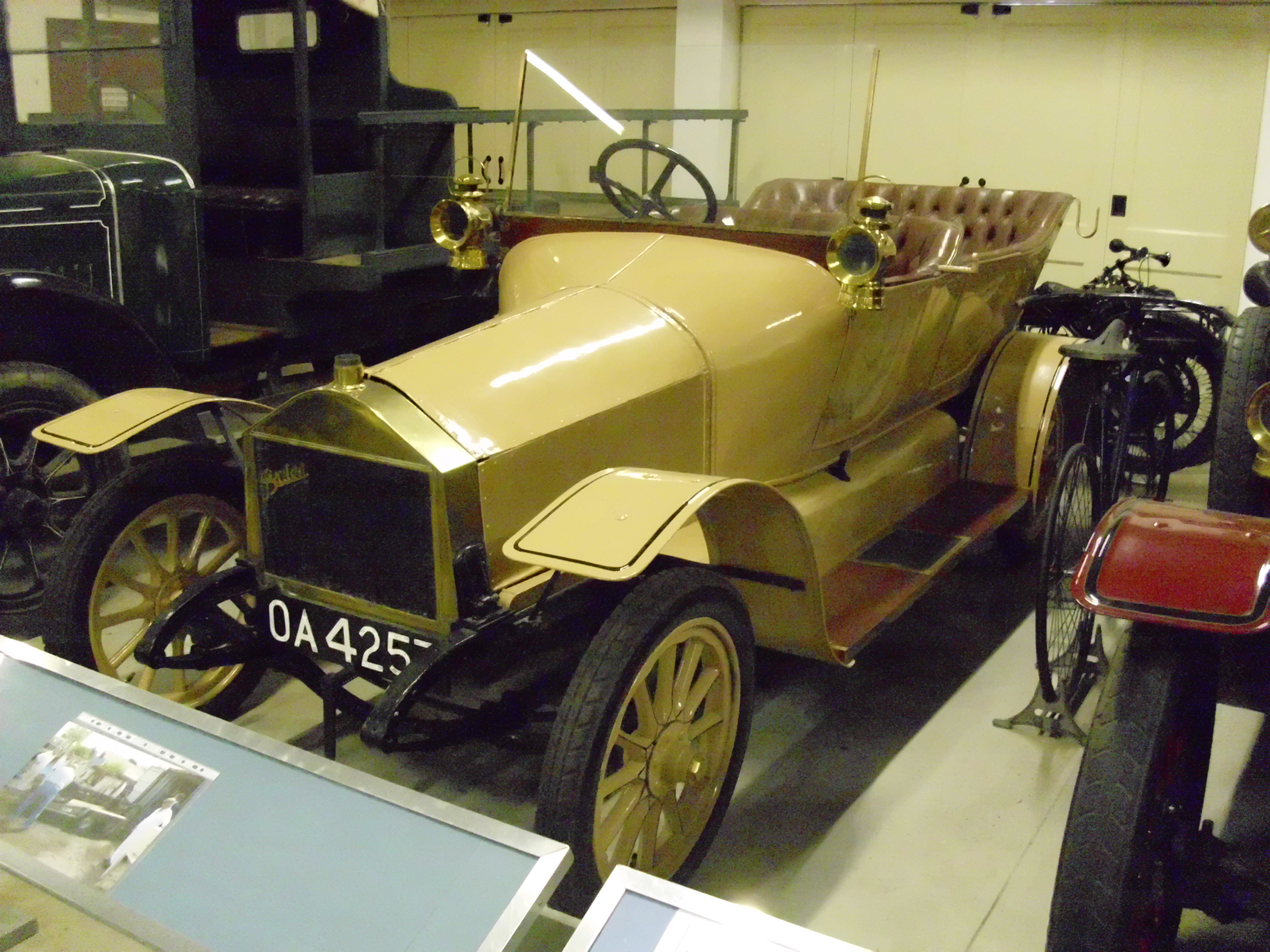 Briton 10/12 HP 1914